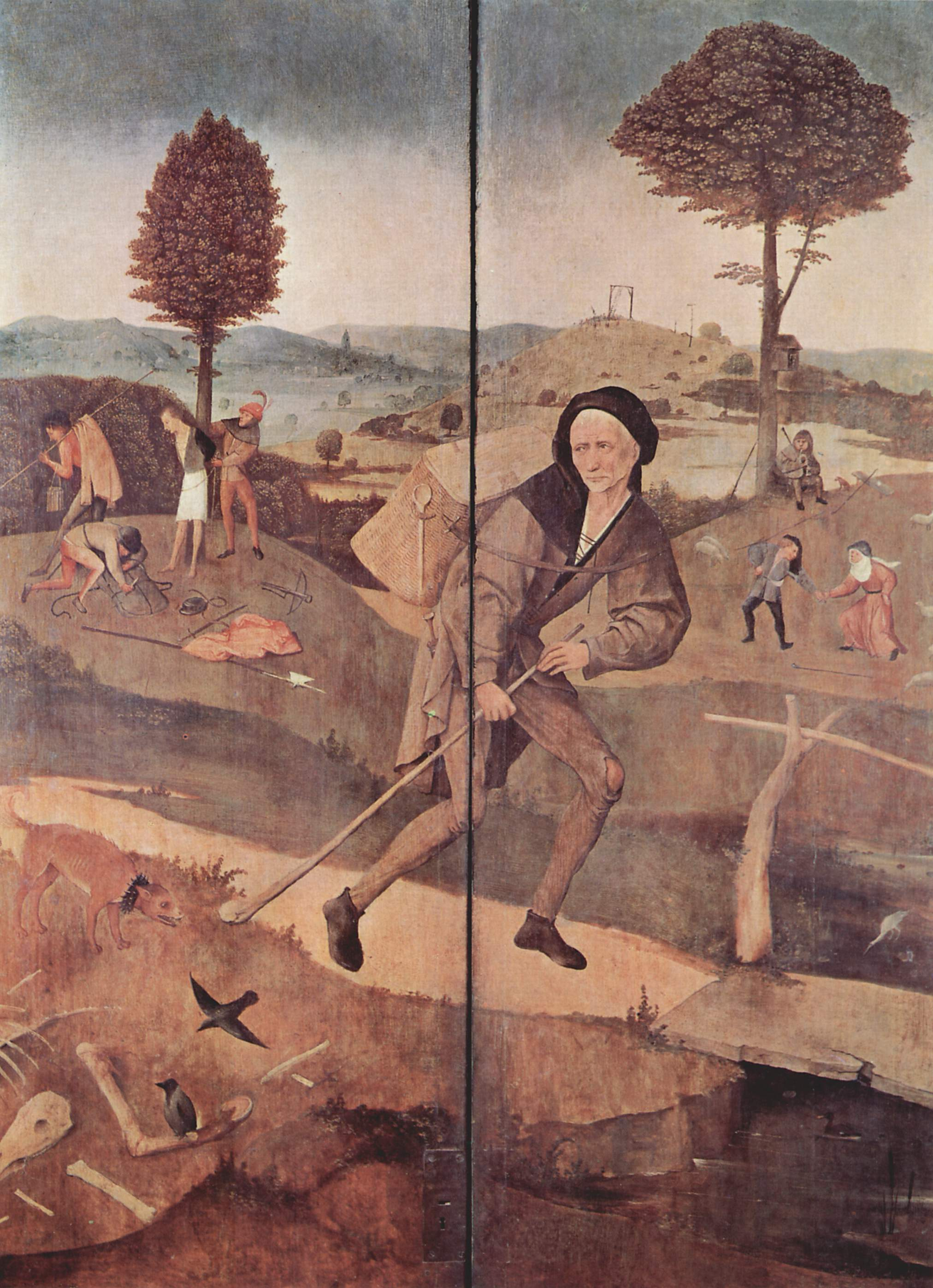 Outside of the Hay Wagon Triptych.